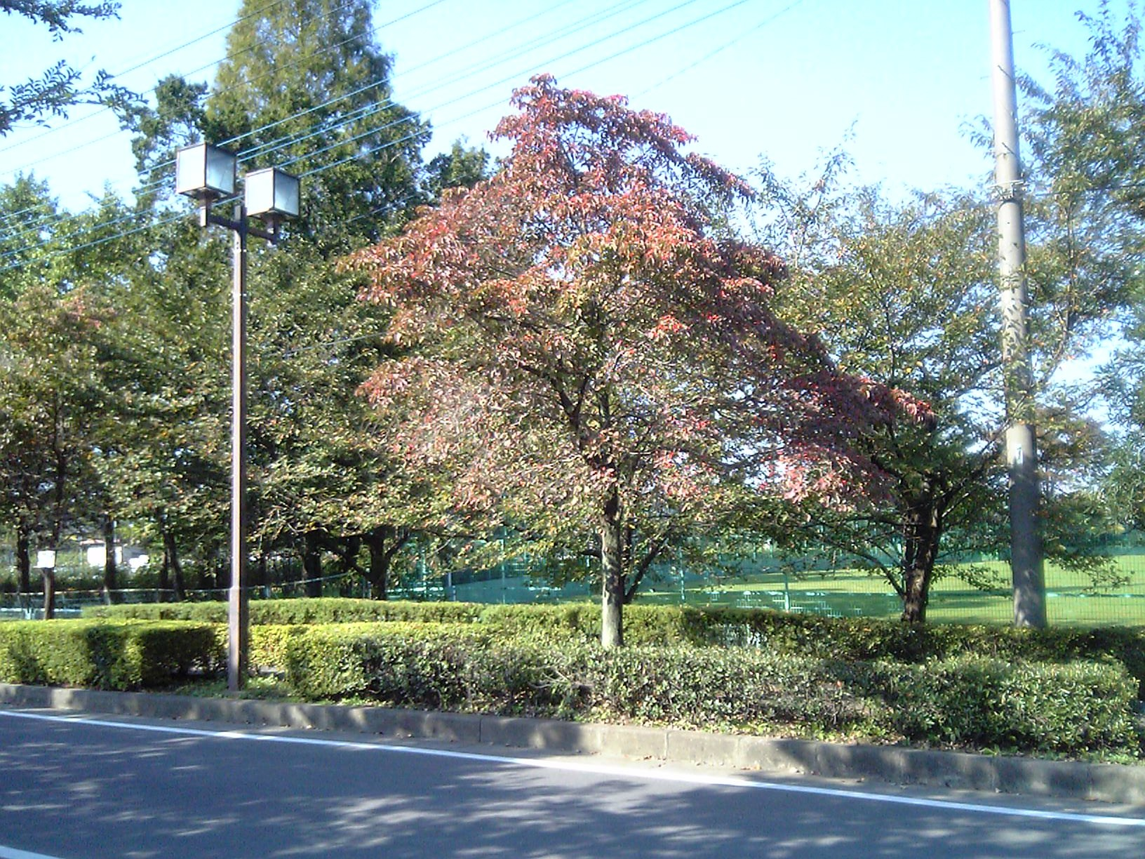 That it seems that the tree shape of Flowering Dogwood of autumn is red, berris. As for the leaf, autumn colors have begun. See also. Autumn, Berries